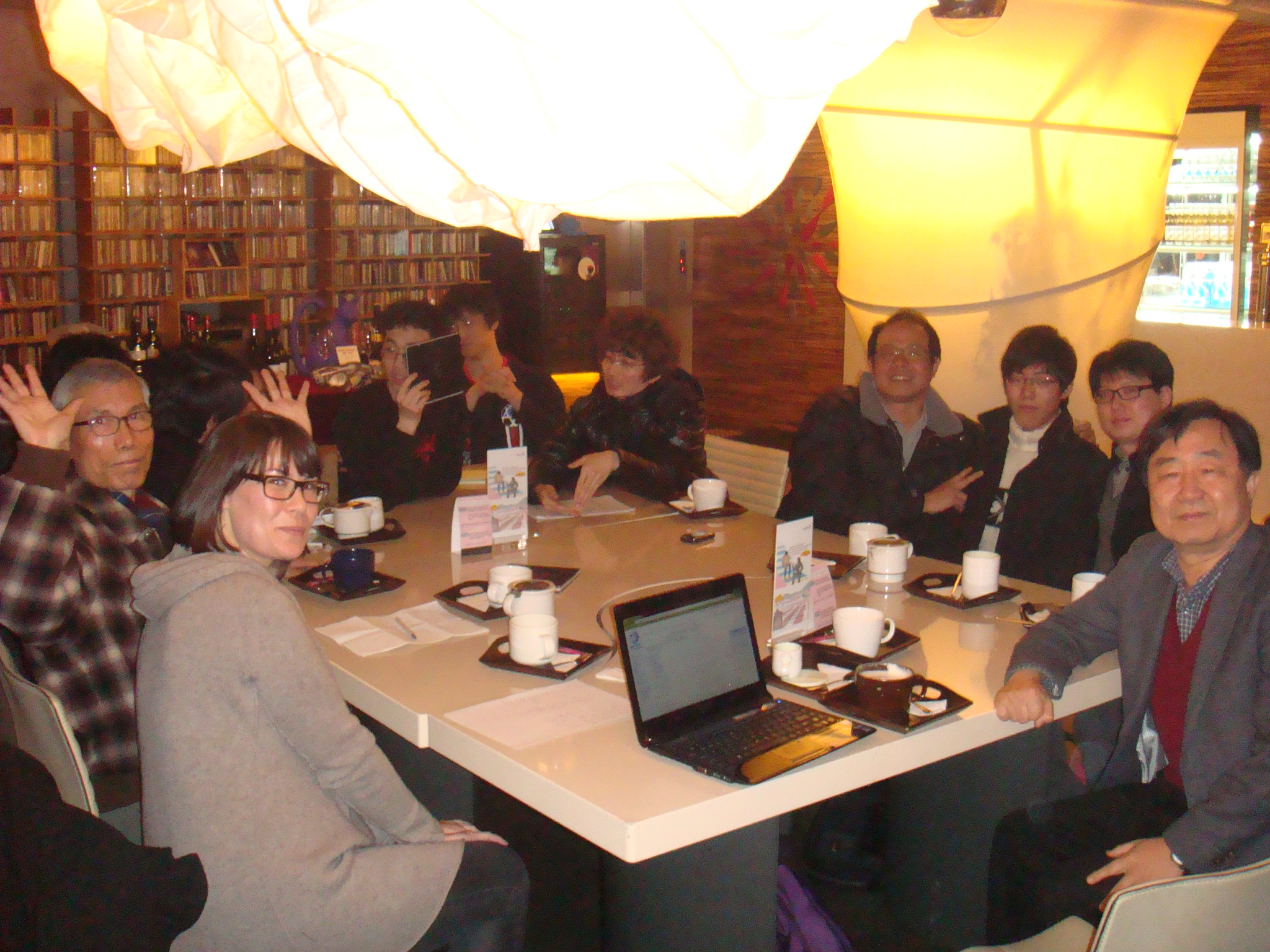 Korean editors meet Moka, Global Communication Manager of Wikimedia Foundation.